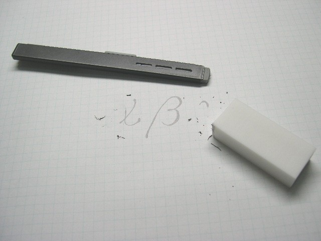 common plastic eraser(lower right) and eraser for drawing(upper left)